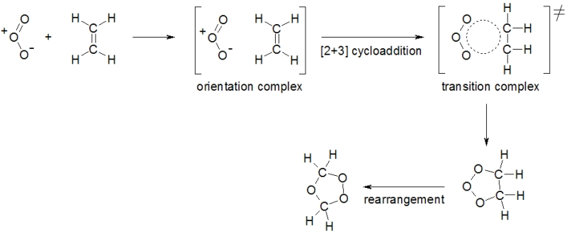 The mechanism of ozone-ethene reaction